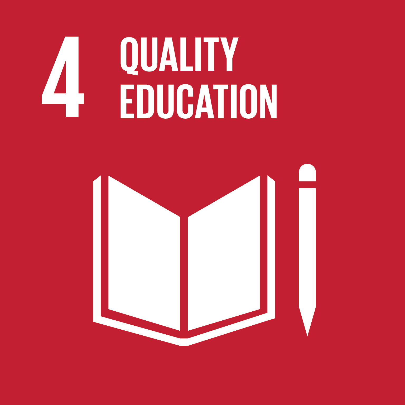 SDG4 Quality EducationRomână: Obiectivul de dezvoltare durabilă nr. 4: Educație de calitate (în engleză)